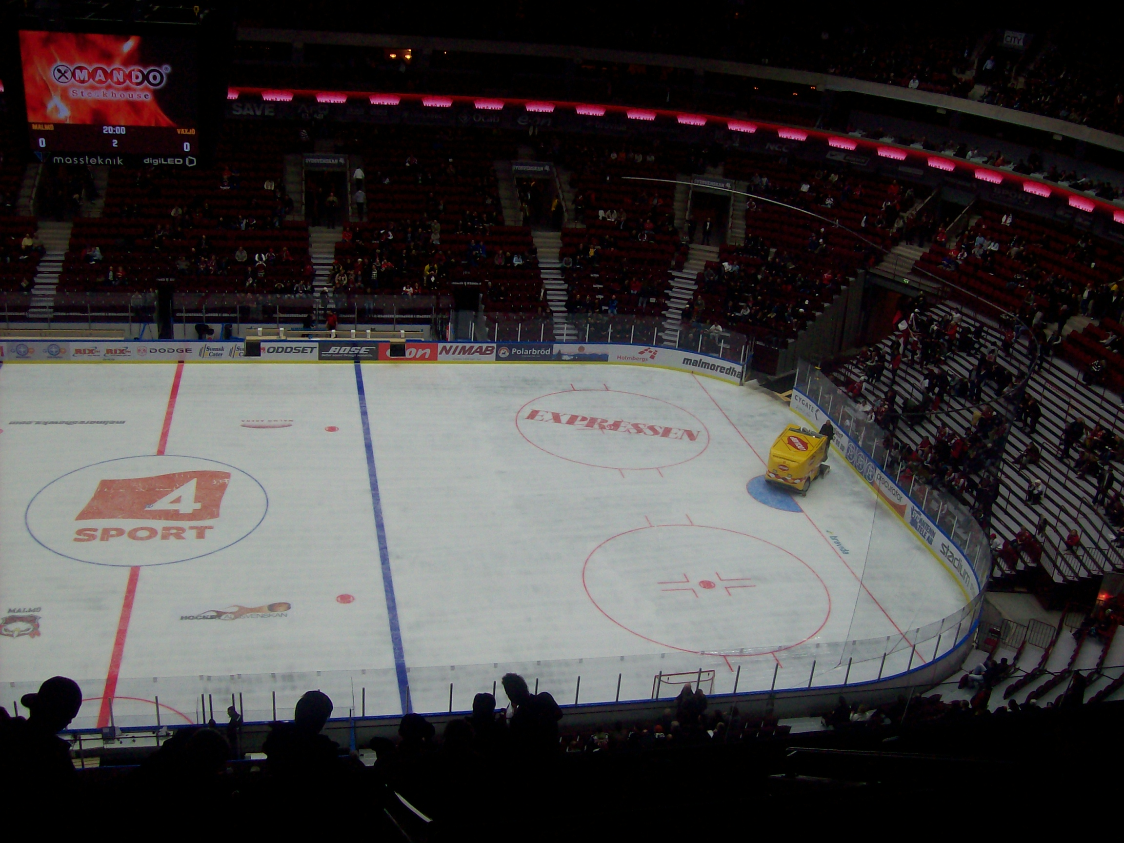 Malmö Arena, November 2008.